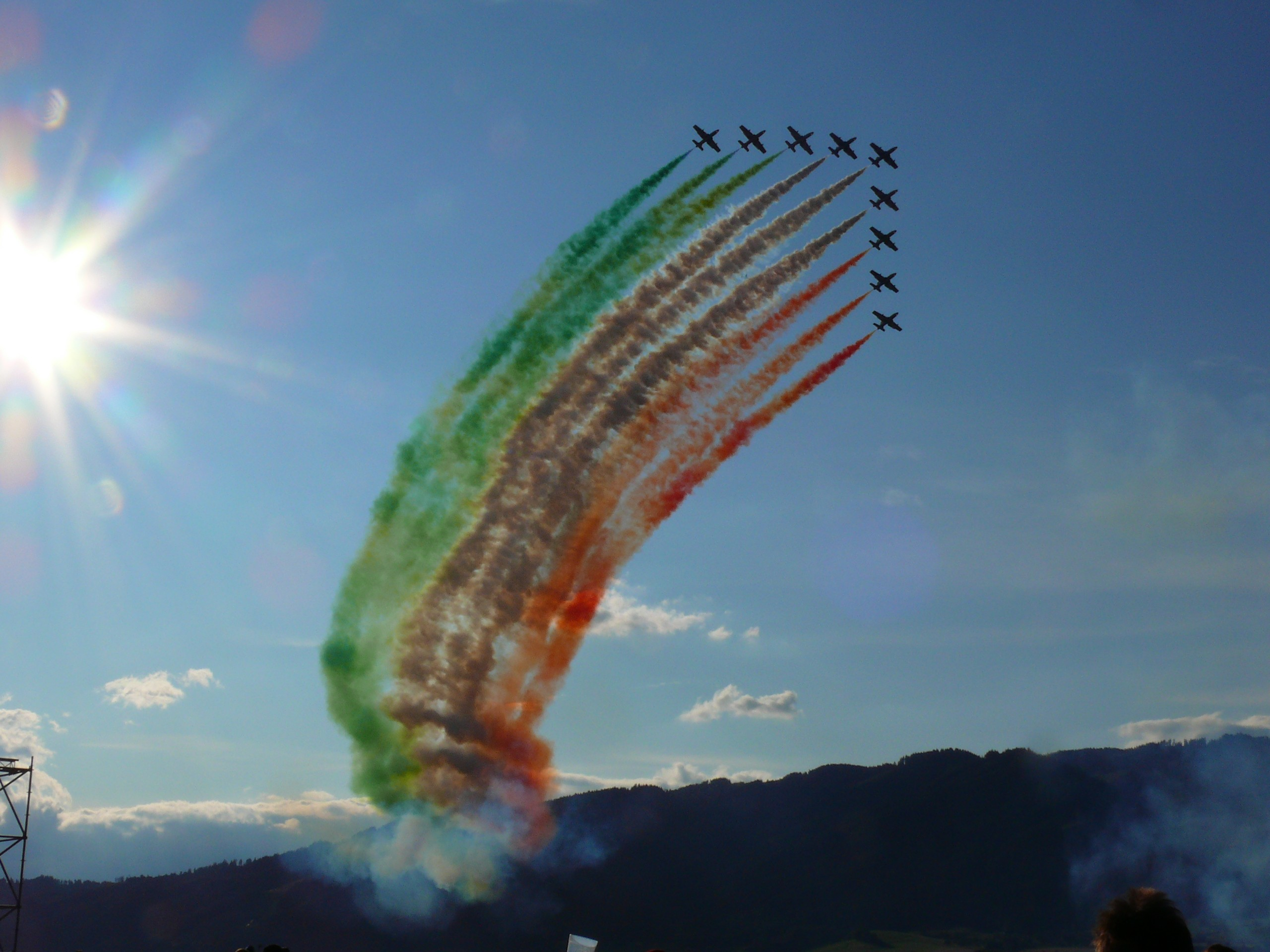 Frecce Tricolori at Airpower 11